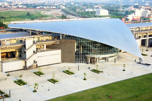 THSR Hsinchu Station